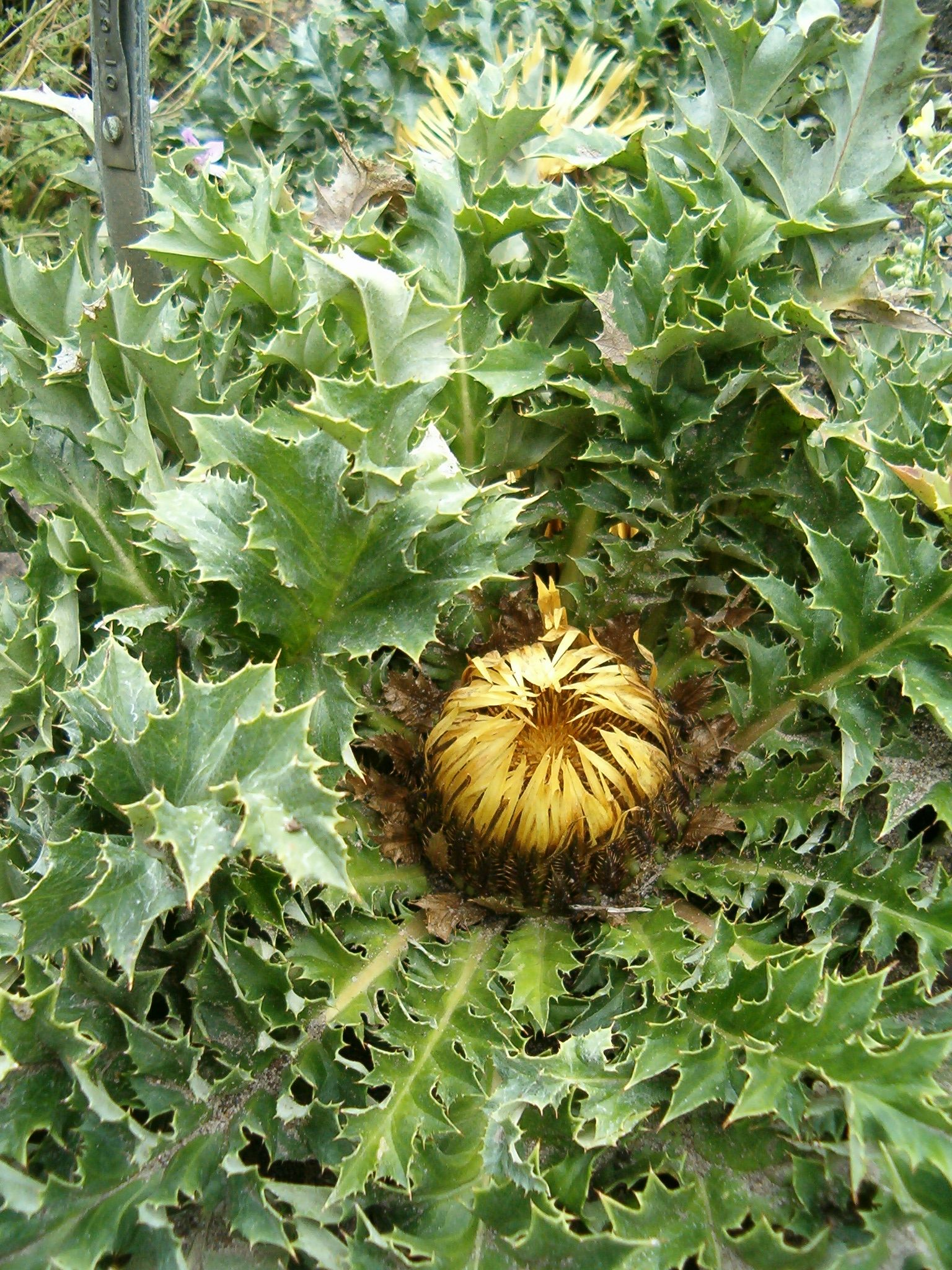 Location: Botanical Gardens Berlin Habitus and Inflorescence